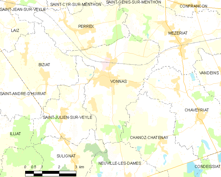 Map of French commune: Vonnas Map commune FR insee code 01457.png